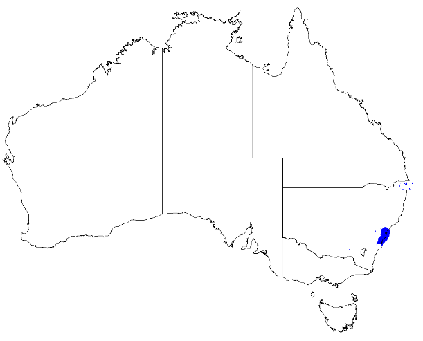 Boronia serrulata downloaded from Australasian Virtual Herbarium 10 April 2019 using This download included all the environmental overlay fields and ALA's data checking fields including "cultivated / escapee", "outside expert range for species", "latitude is negated", "coordinates are transposed", "taxon misidentified", "habitat incorrect for species", and "suspected outlier" (711 fields). Deleting occurrences for which any of the above were true, 46 specimens with coordinates were deleted. Further points (specimens) were excluded on inspection of the interaactive maps as "detected outlier jackknife": AK266933 QRS 146311 MEL 2079087A AK32837 MEL 0255244A NE 3185 MEL1058135A